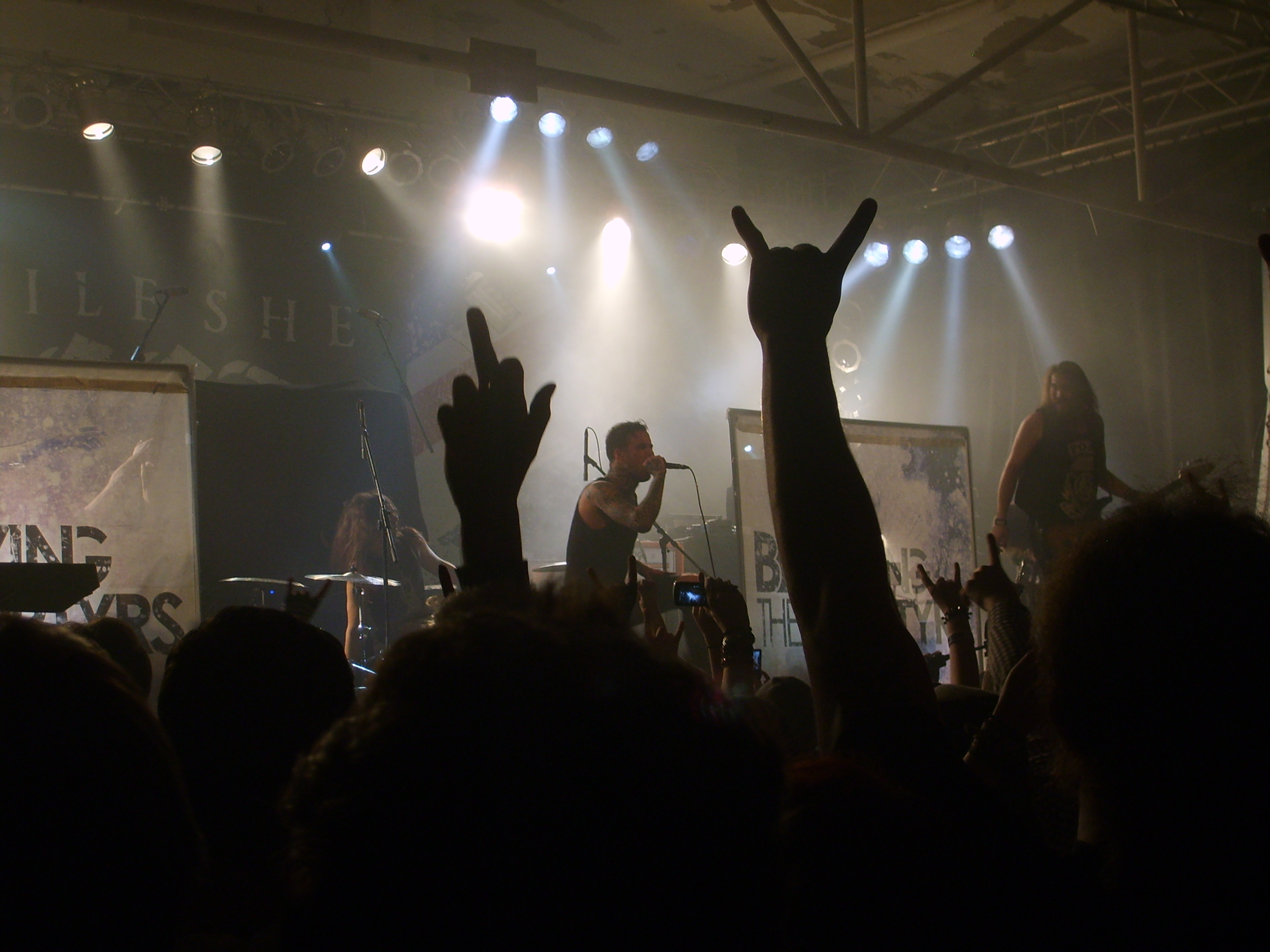 Betraying the Martyrs live in Cologne during the European tour of Asking Alexandria.